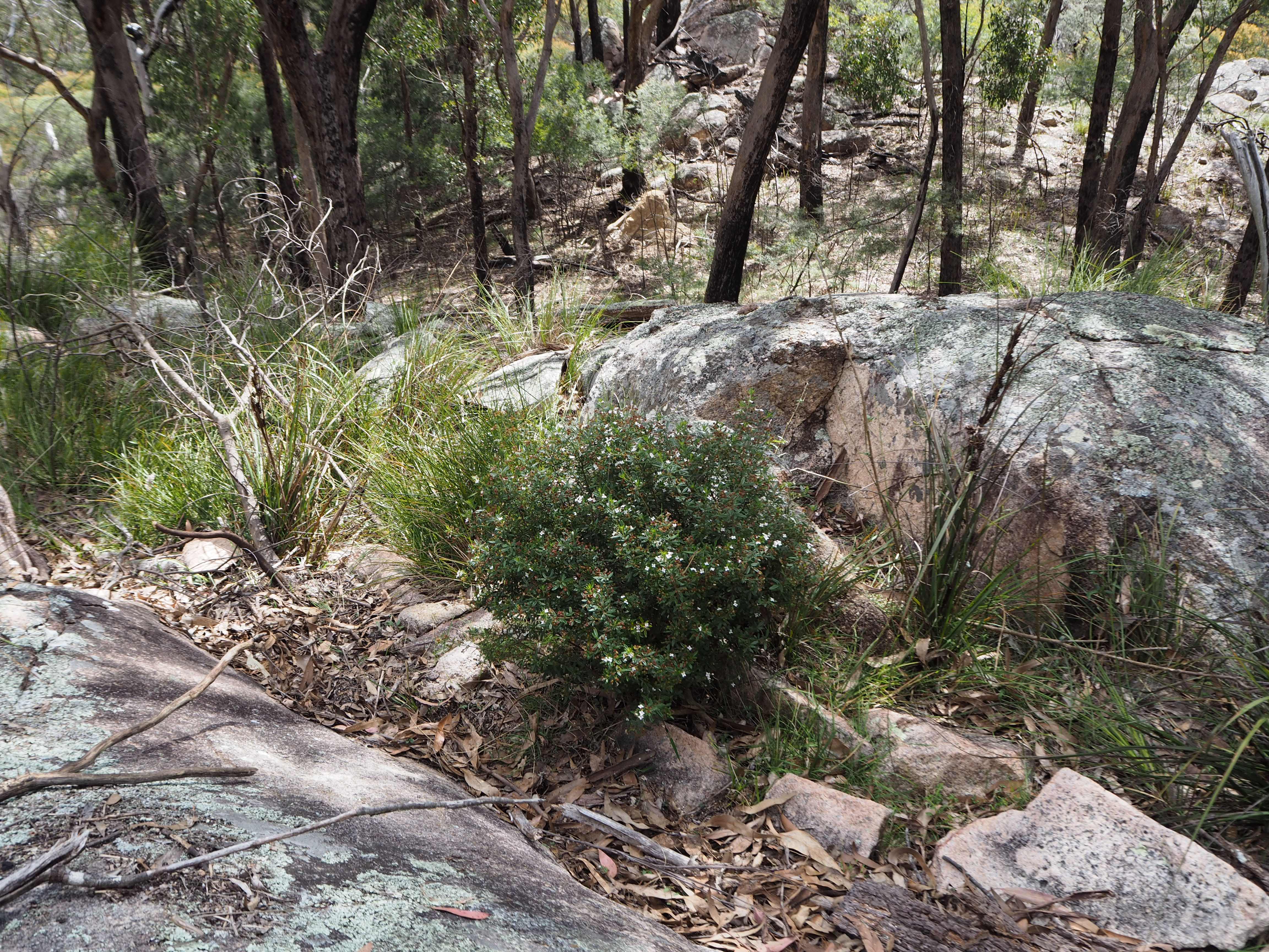 Zieria compacta growing in the Bolivia Hill Nature Reserve south of Tenterfield